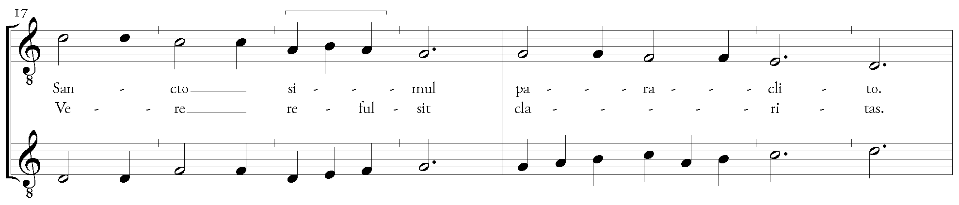 Line 3 of Quy non fecit from Parma bib. pal. 3597 showing voice crossing/Stimmtausch